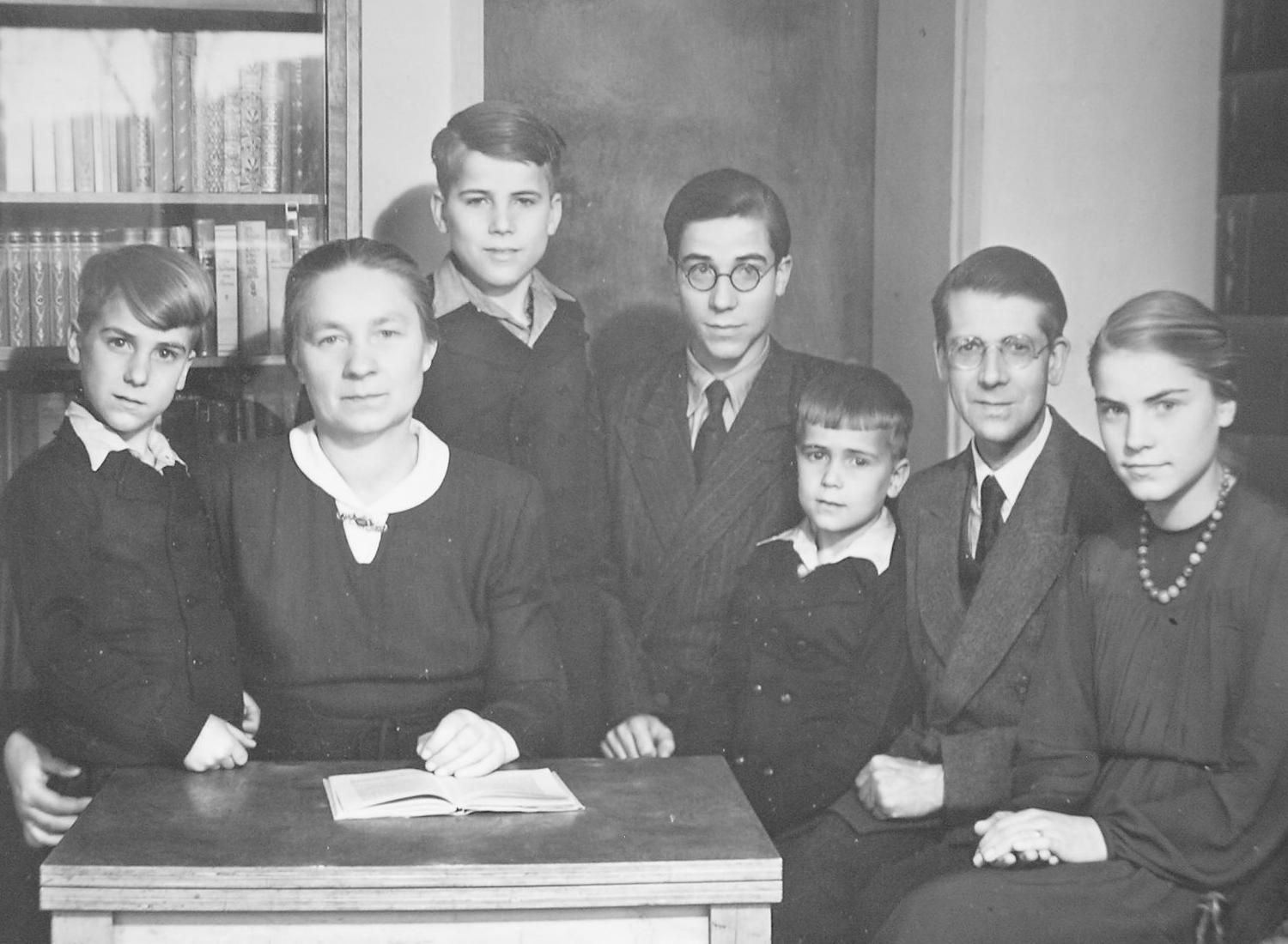 Friedrich Hund with his family (wife Ingeborg und 5 children), 1950 in Jena